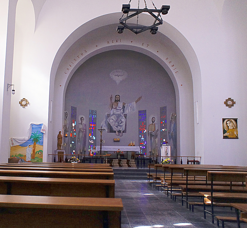 Interior of; Saint Francis of Assisi Cathedral, El Aaiun, Western Sahara